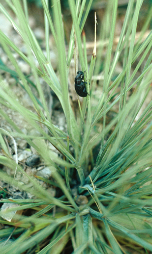 New Zealand speargrass weevil Lyperobius huttoni on common speargrass Aciphylla squarrosa